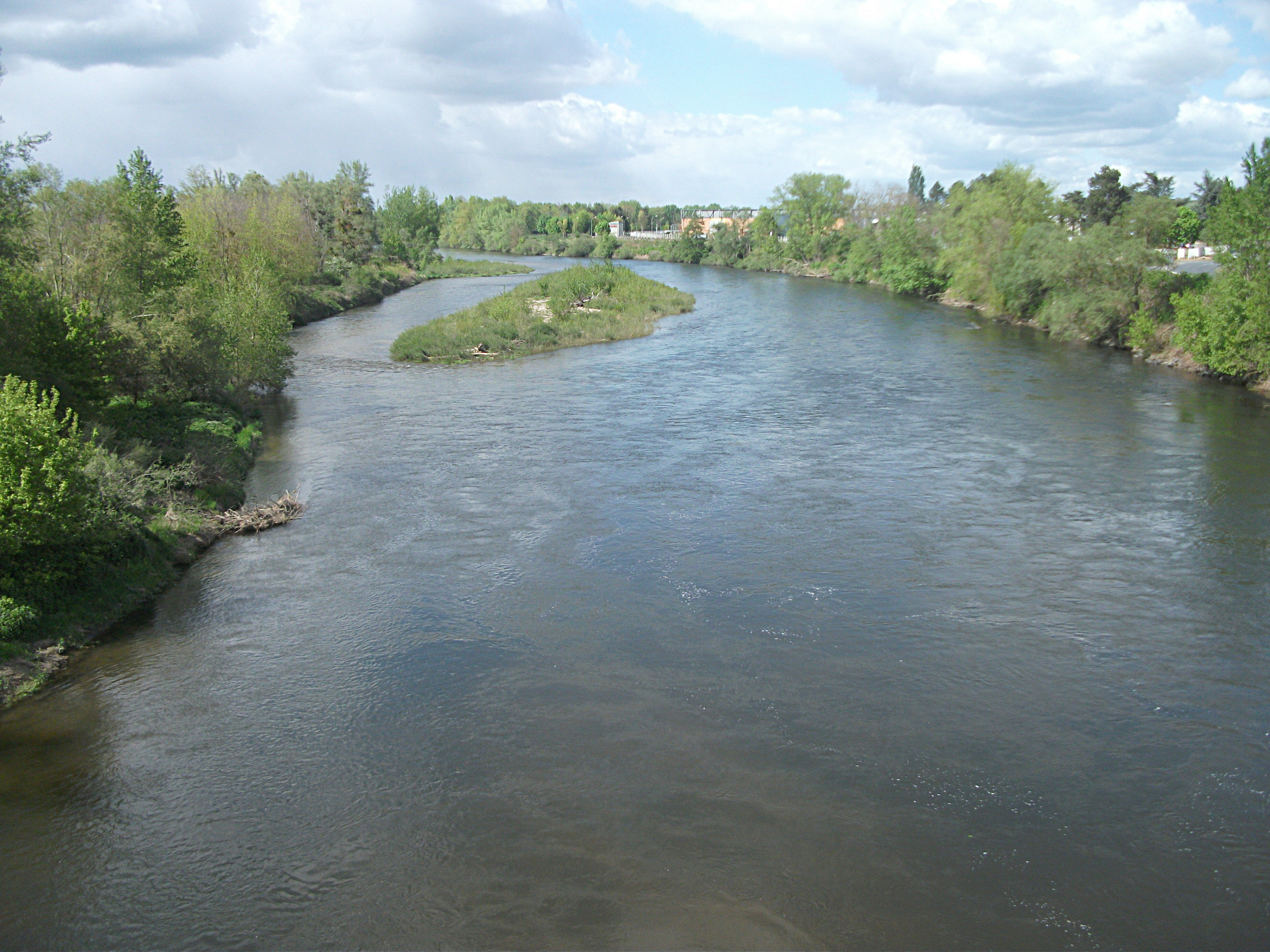 Allier River from Pont Boutiron, view to the north. [18240]